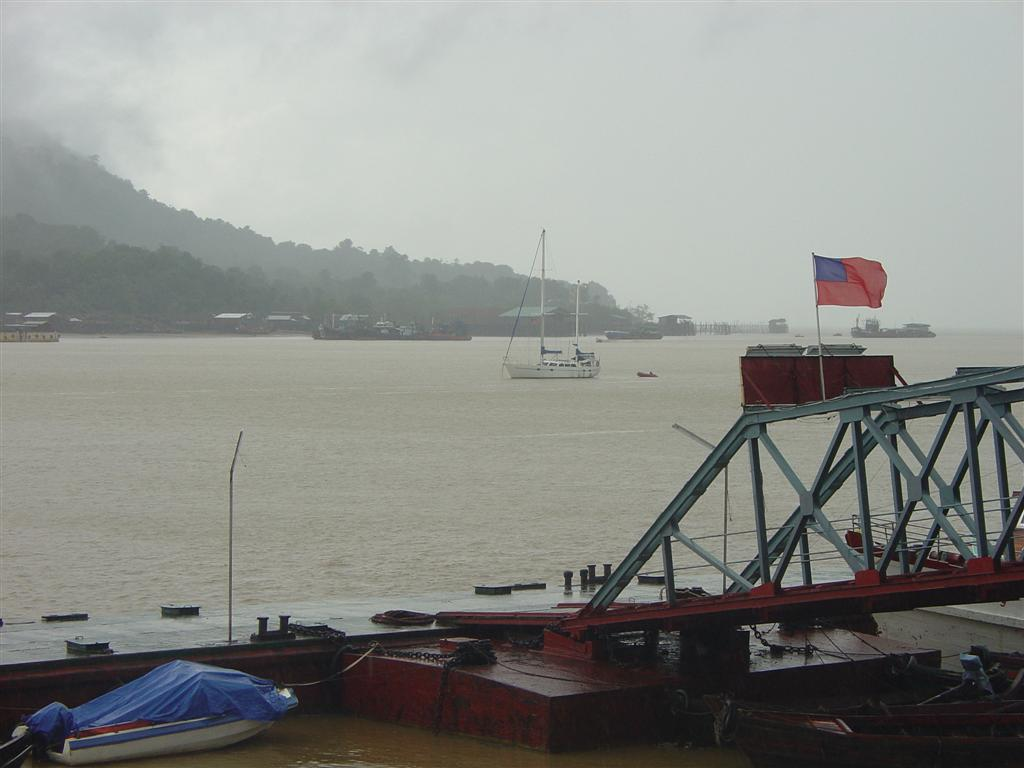 The Harbour of Mergui